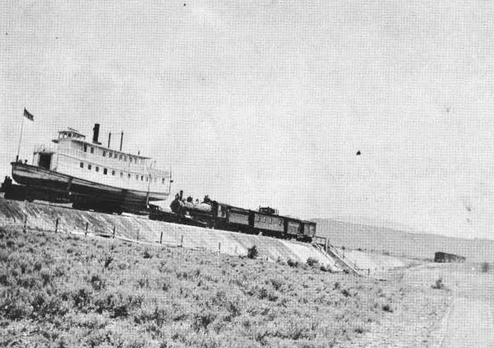 The steamer Klamath being hauled overland, by rail, from Lake Ewauna to Upper Klamath Lake, 1909